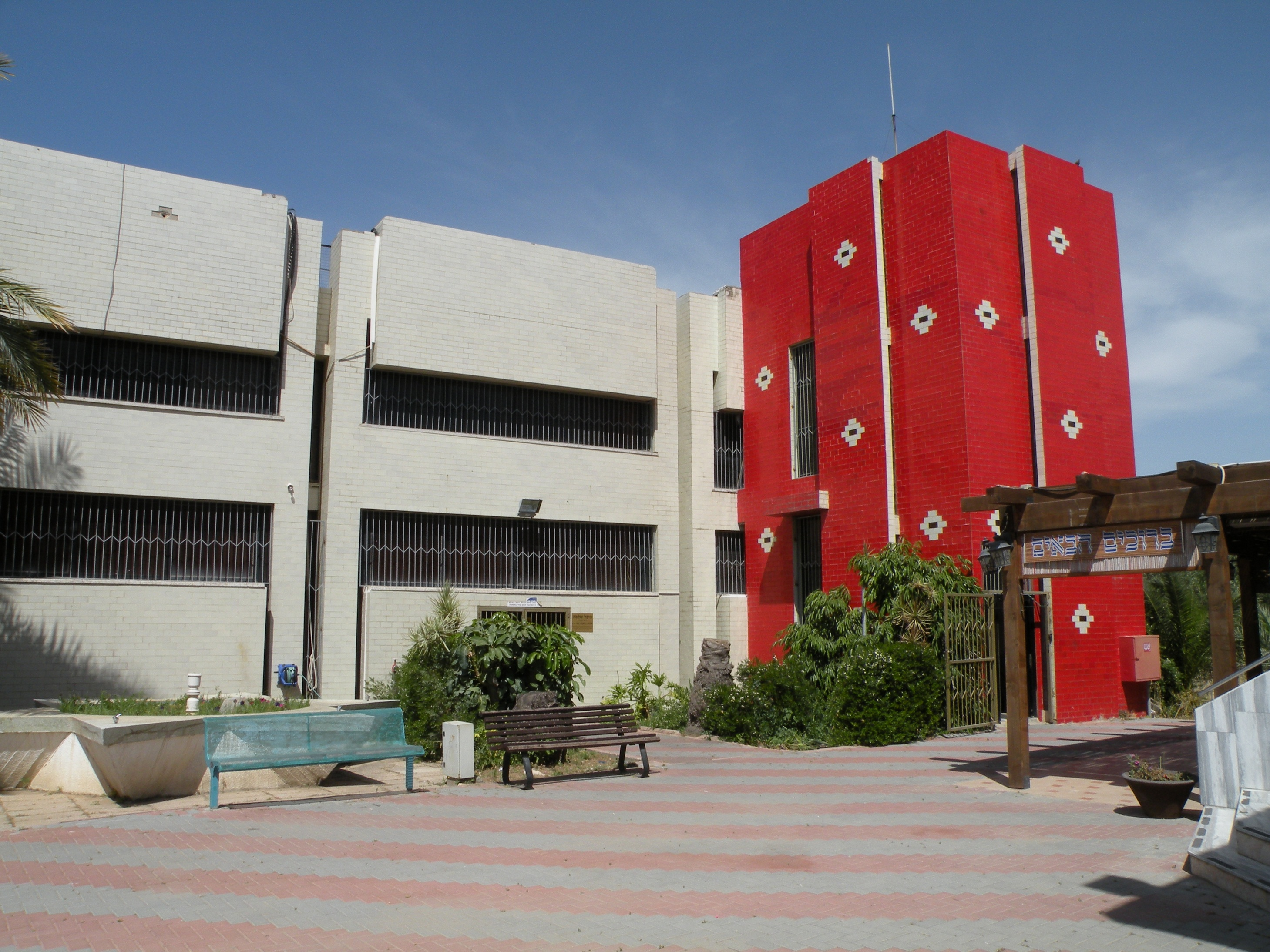 World Karaite Judaism Center in Ramla